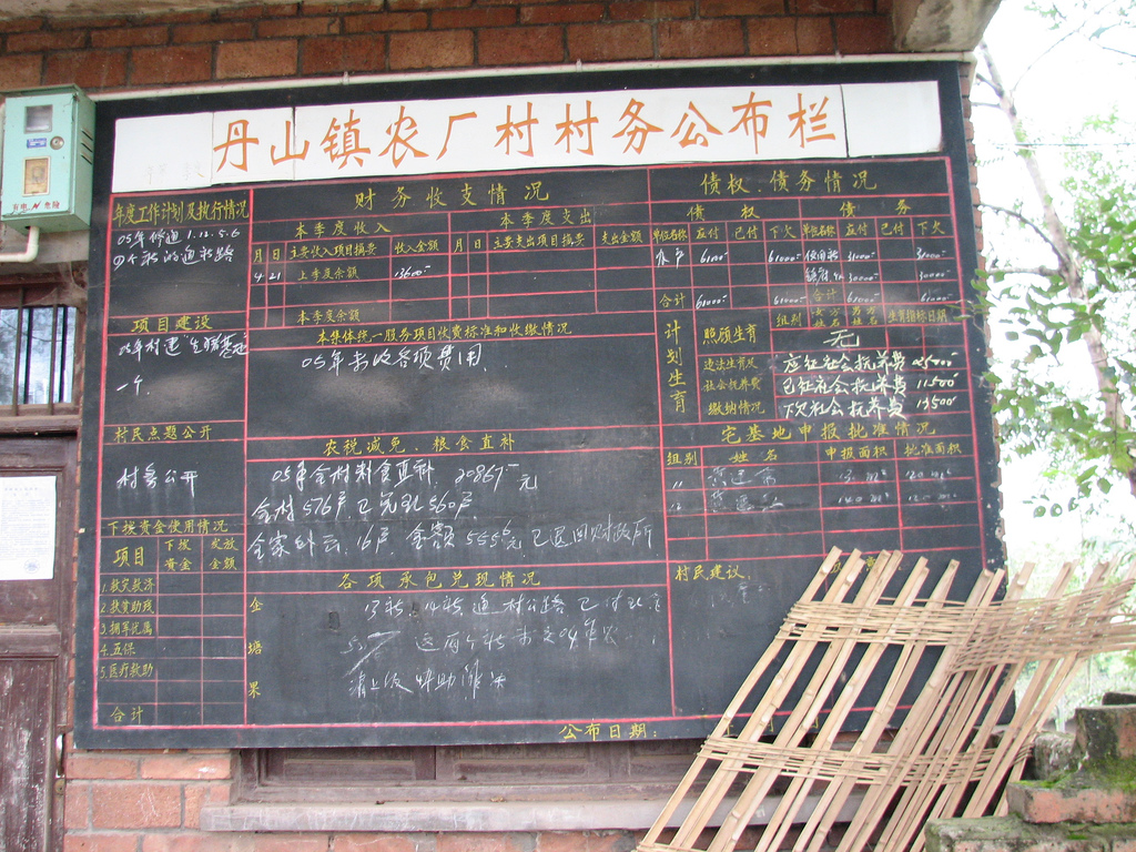 The Danshan, Sichuan province Nonguang Village Village Public Affairs Bulletin Board provides some information on village affairs. These bulletin boards have a section on family planning. This bulletin boards notes that RMB 25,000 in "social compensation fee" family planning fines were owed in 2005. Thus far 11,500 RMB has been collected and another 13,500 RMB is yet to be collected. Some local affairs bulletin boards are more detailed than others. The bulletin board of the Danshan Market area Residents' Committee listed the names of all the women who had given birth recently and whether or not the birth was outside the plan. One of the nine birth recorded recently was outside the plan. A second child was born to one woman, but as allowing by regulations. According to the information on the bulletin board, there are 946 women in their reproductive years with household registration in the Market area. Of those, 315 are subject to the "Three Checks" [Note: Sancha: check for pregnancy, check for intrauterine loop, and check for illness. End note.] Of the 3463 population of the Market area, 327 are living away, including 57 women of reproductive age.